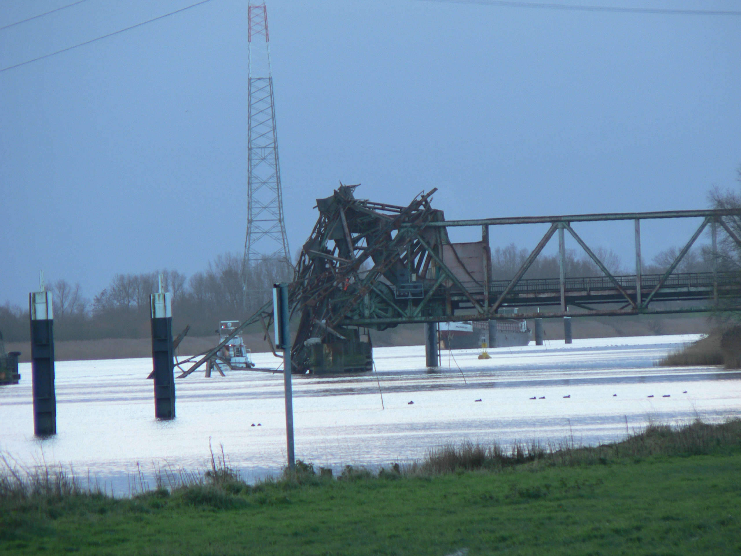 In the night of December 3rd, 2015 a cargo ship (Emsmoon), coming from Meyer Werft Papenburg, collided with the Friesenbrücke and destroyed it. The train route Groningen Leer is for a longer time discontinued.